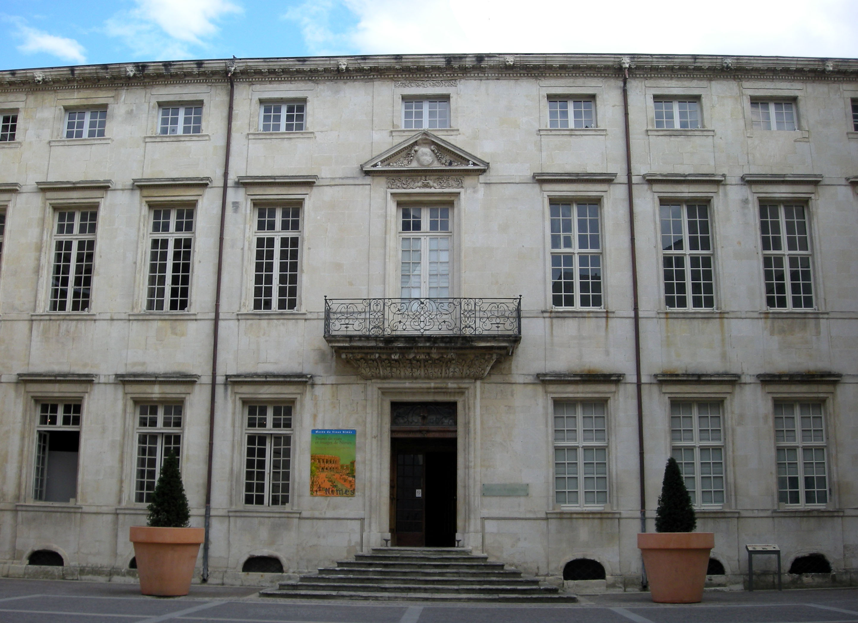 Musée du Vieux Nîmes (Gard)